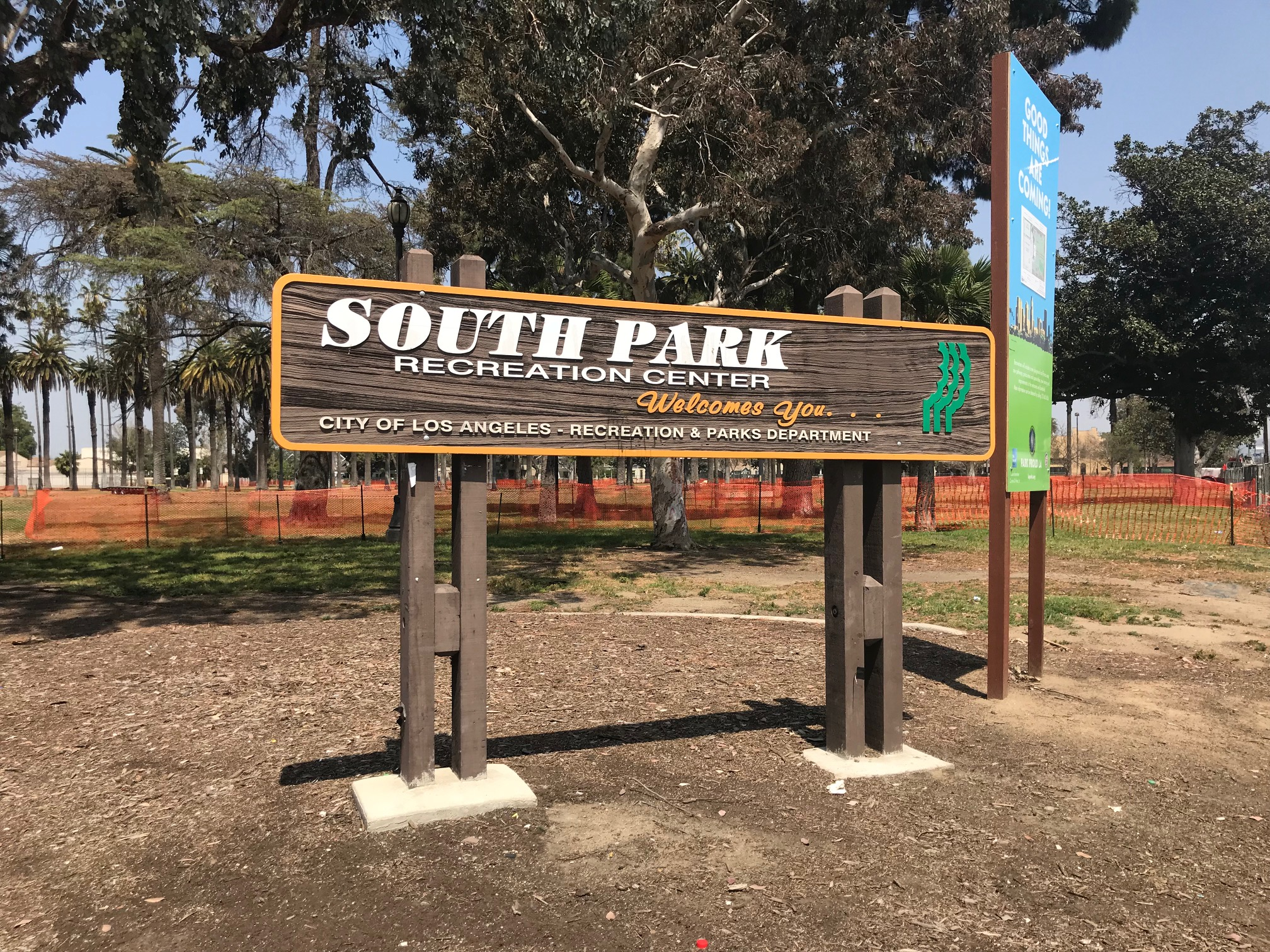 Photo of a park